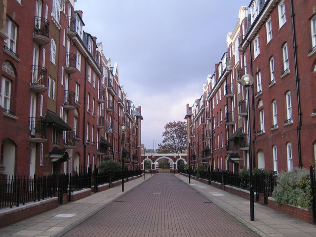 Hackney: Navarino Mansions, E8 Navarino Mansions was designed in the Arts and Crafts style by the architect Nathan Joseph to provide accommodation for 300 Jewish artisans from the East End. The buildings were completed on the south side of Dalston Lane in 1905 by the philanthropic association of the Four Per Cent Industrial Dwellings Company. During the 1990s the estate was totally refurbished to the designs of the architects Hunt Thompson. There are two other courtyards similar to this one. From a Geograph viewpoint the 185000 northing runs across the arch in the distance.